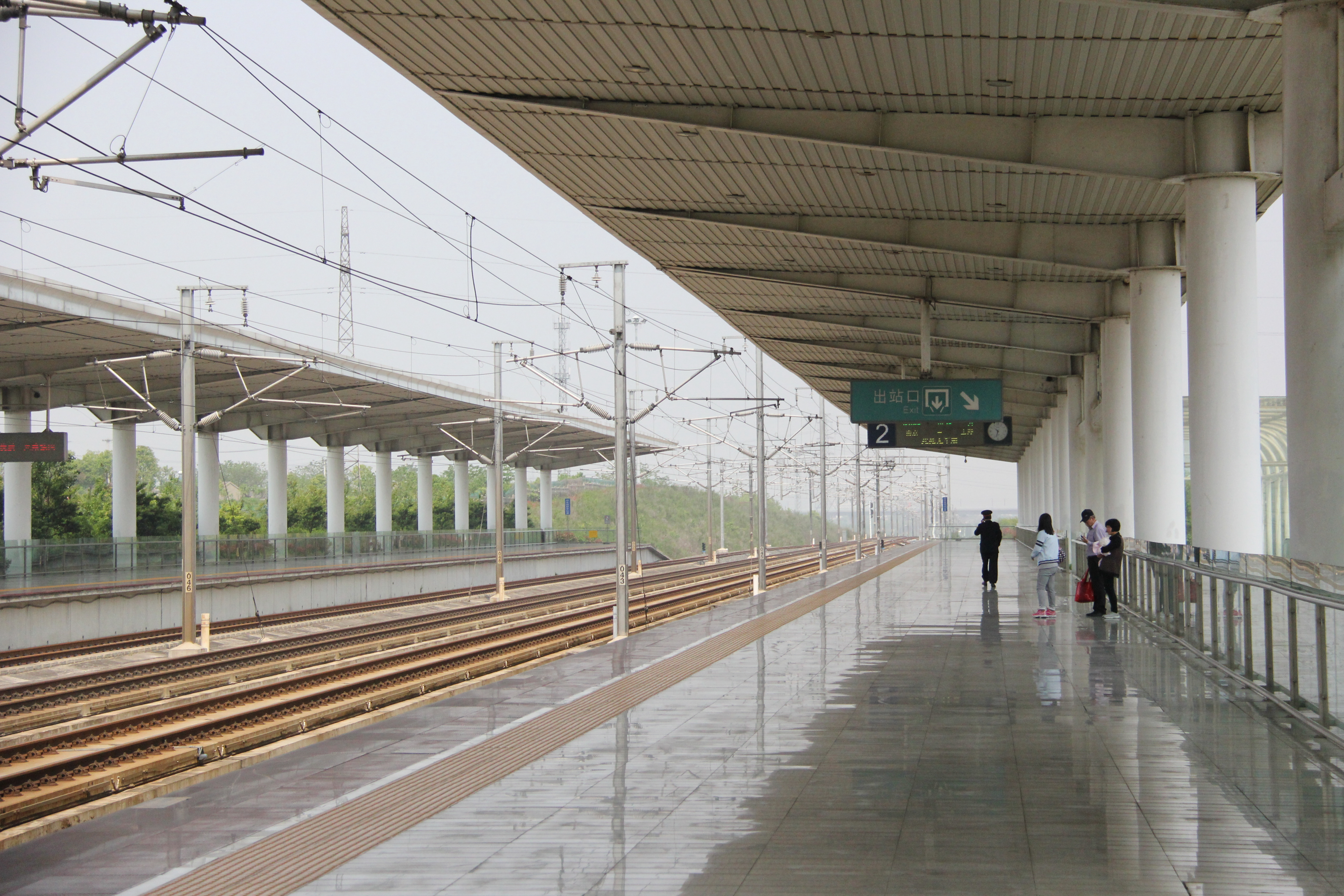 201604 Platform of Dantu Station(Nanjing Direction)